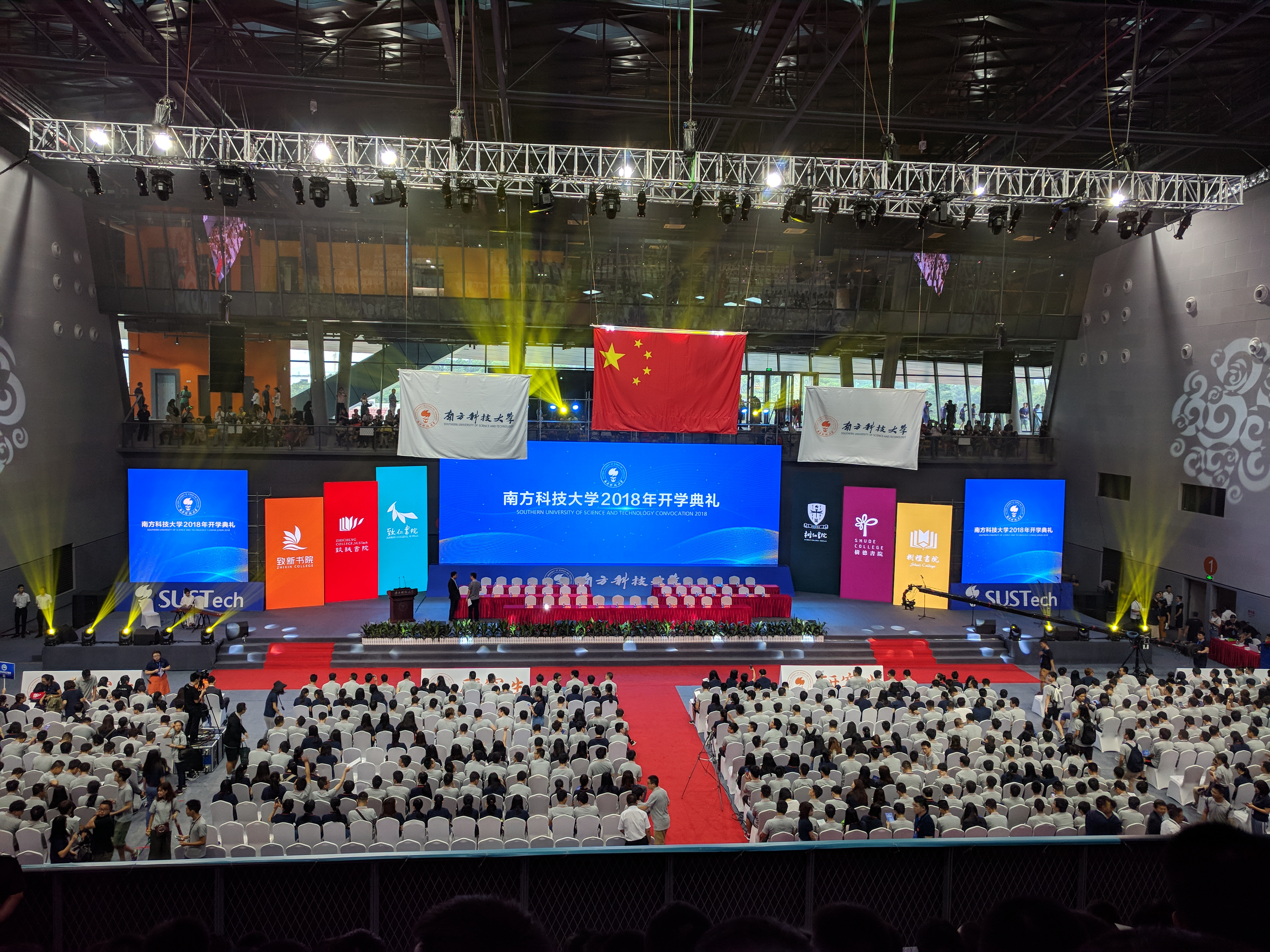 The Opening Ceremony of SUSTech 2018